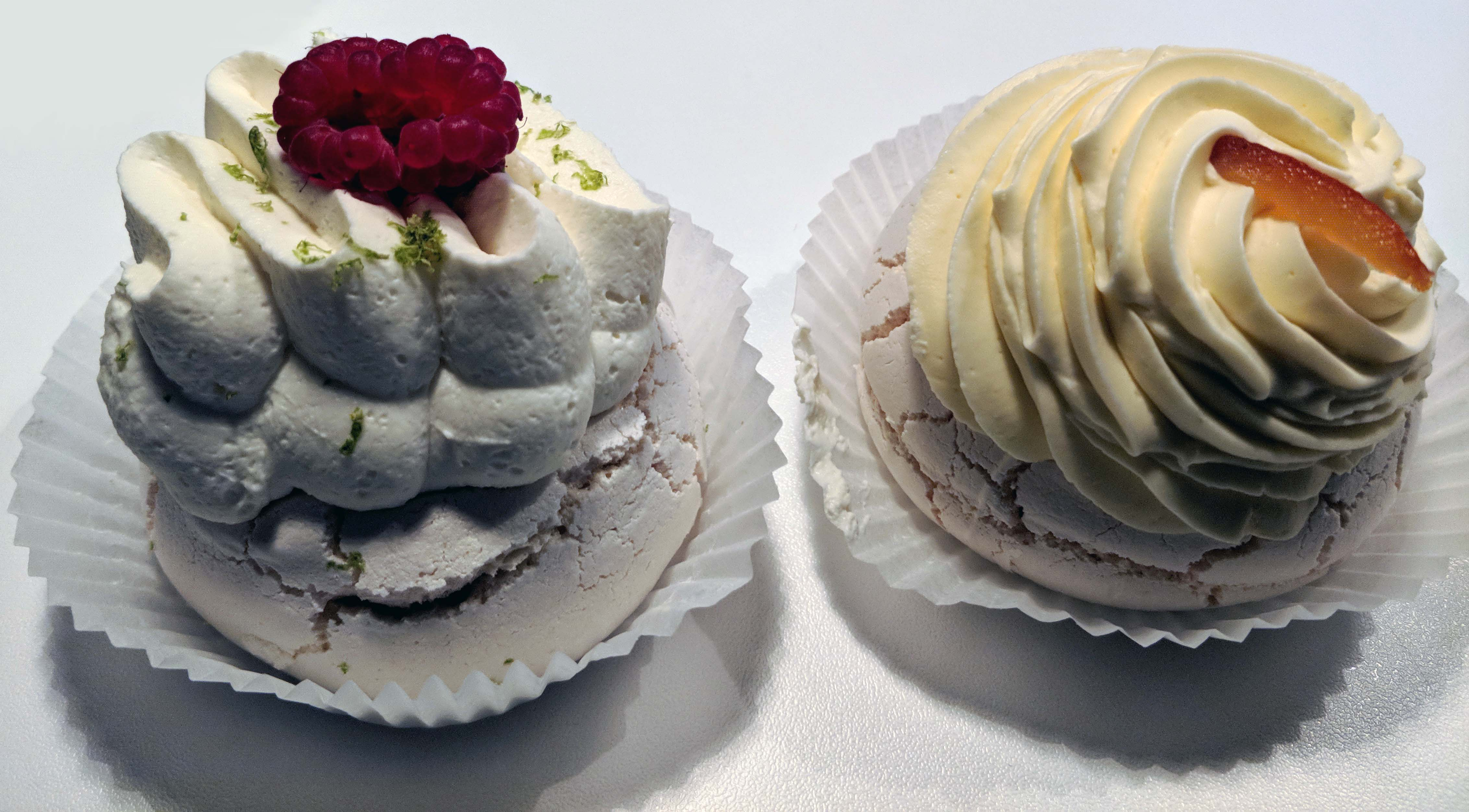 Strawberry and mango Pavlovas